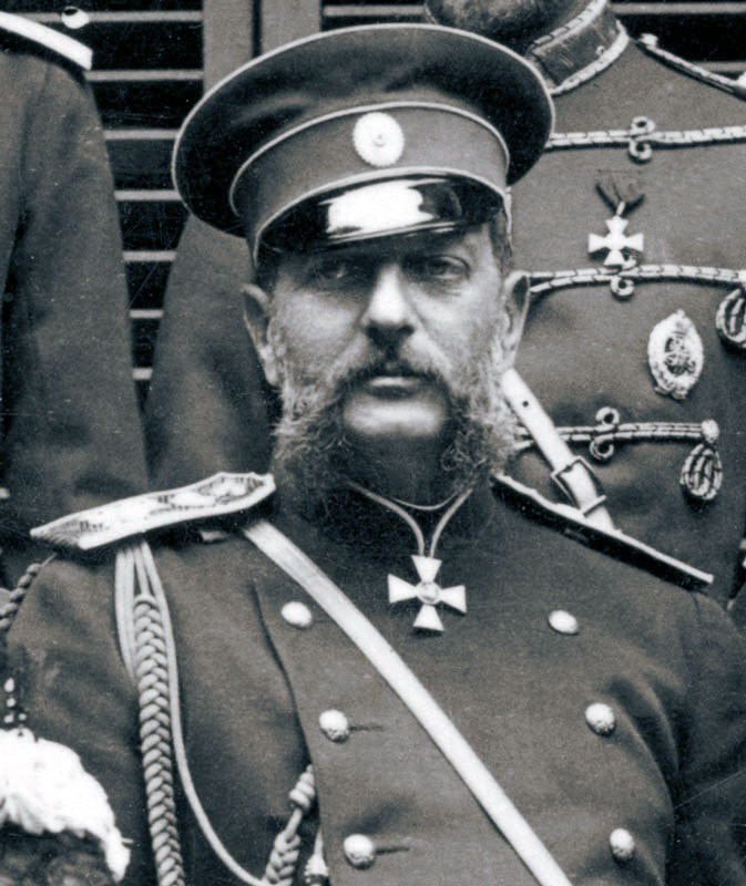 Grand Duke Vladimir Alexandrovich of Russia (1847-1909)